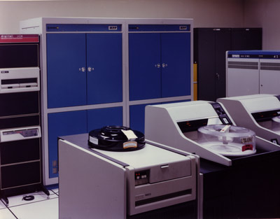 The Goodyear Aerospace Massively Parallel Processor, at NASA/GSFC sometime in the 1980s.